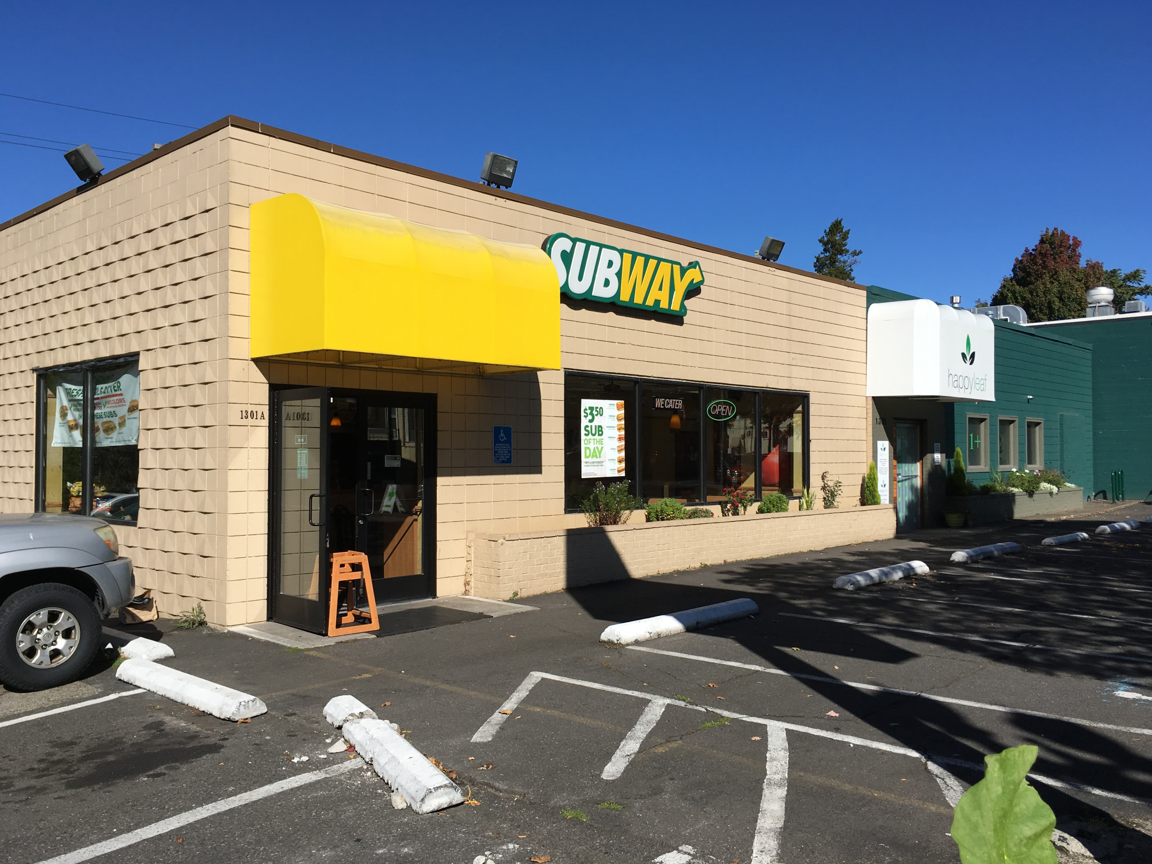 The historic commercial building (built ca. 1927) at 1301 Northeast Broadway in Portland, Oregon, United States, is listed as a contributing resource in the Irvington Historic District. The historic district is listed on the U.S. National Register of Historic Places.